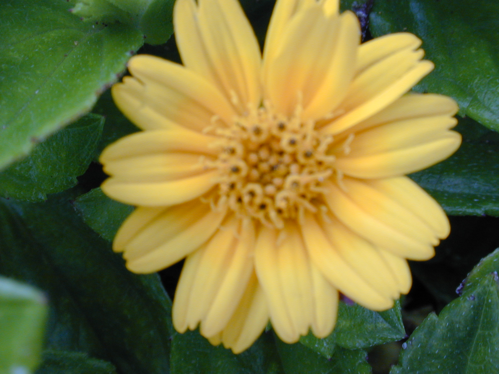 Melanthera integrifolia (flower). Location: Maui, Keopuolani dune